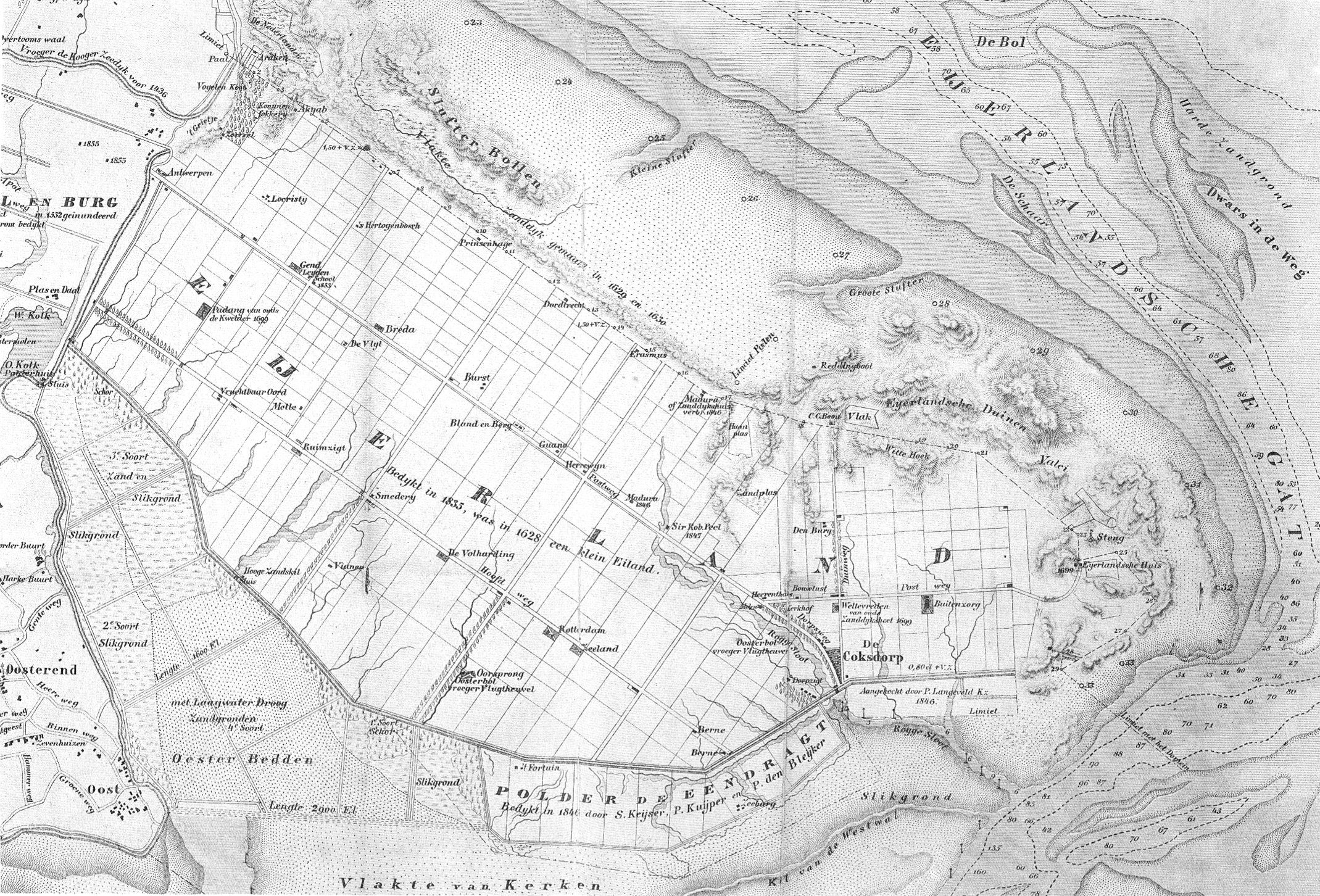 Map of Polder Eijerland 1854